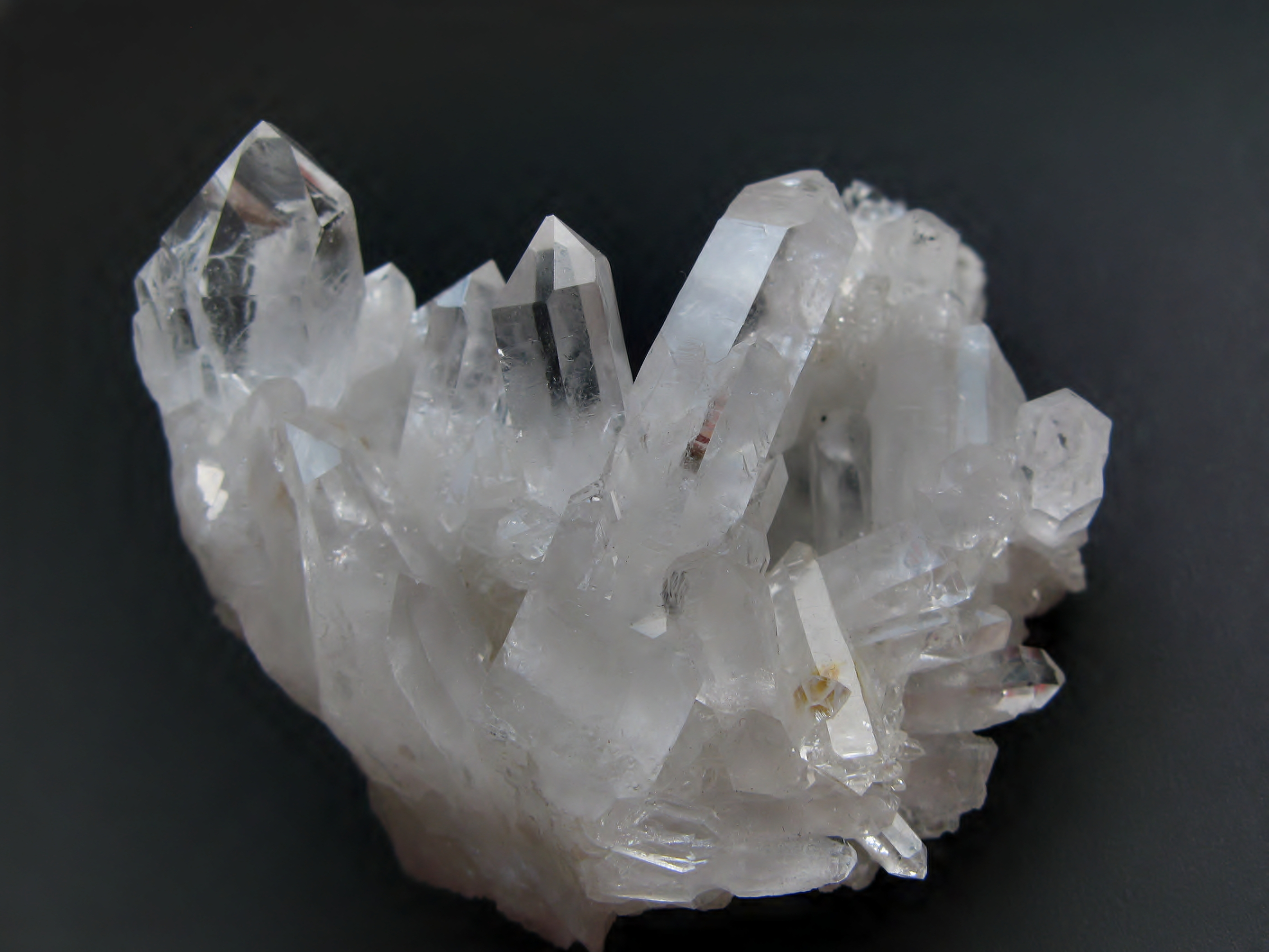 Rock crystal